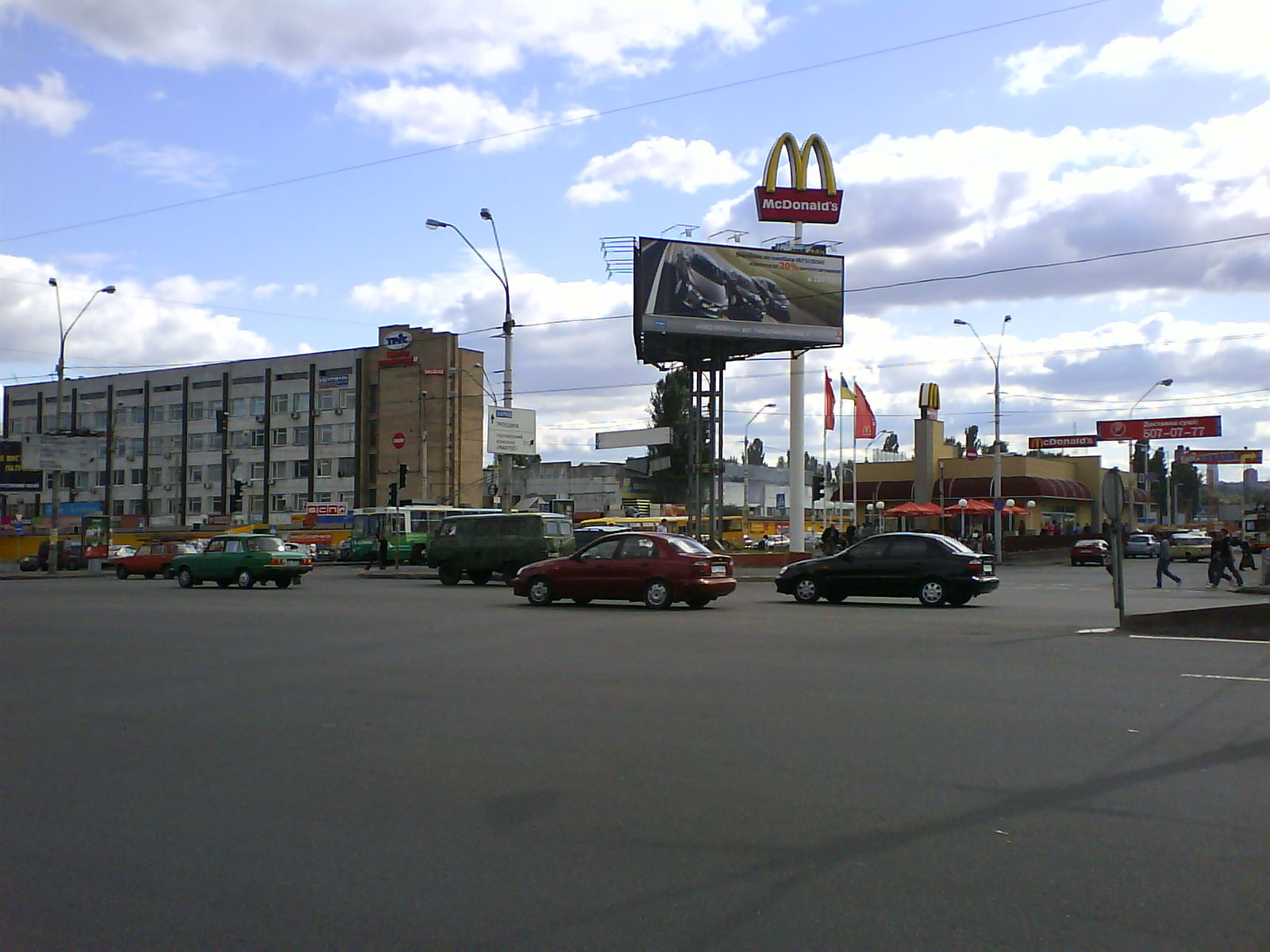 Tulska Square in Kyiv